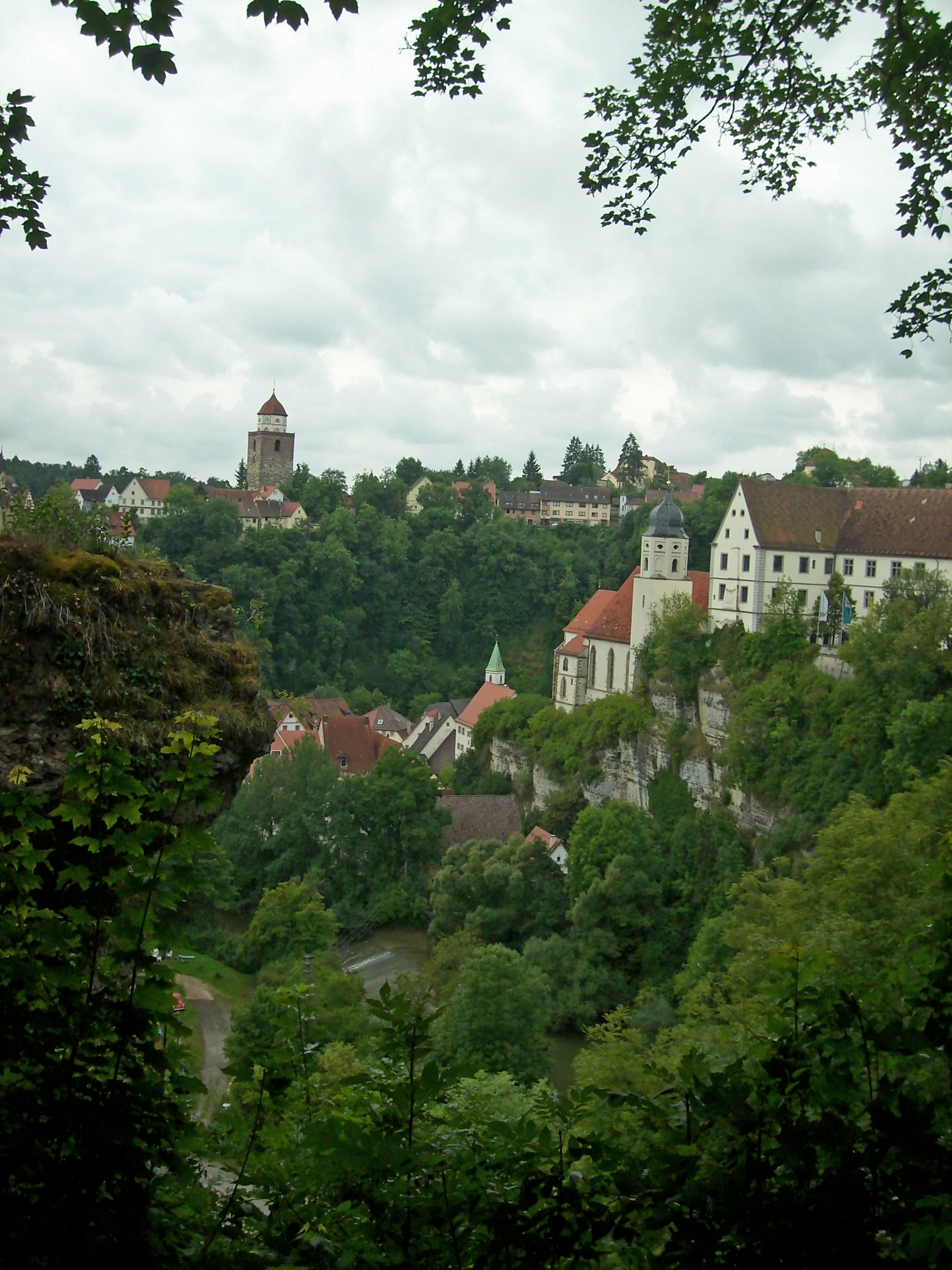 Haigerloch This image is annotated. If you would be viewing on Commos instead of the media viewer, you could see where the experimental nuclear reactor was located in a cellar. Schloss Haigerloch